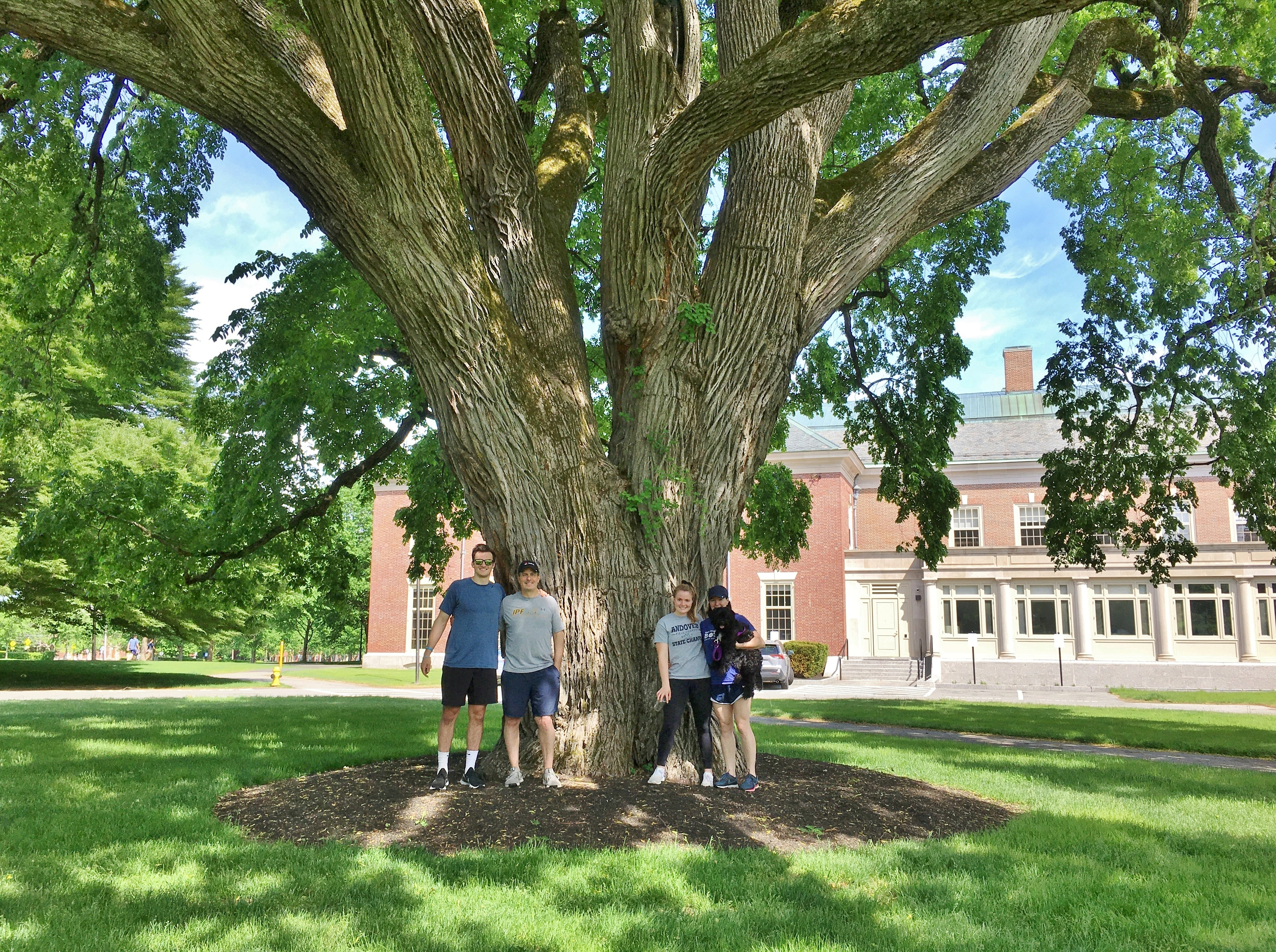 Photograph of a group of visitors with an American elm tree located at Phillips Academy in Andover, Massachusetts. Phillips Academy was founded in 1778 and the tree is estimated to be over 200 years old. Tree measurements as of November 2019: circumference of 21 feet; spread over 100 feet; height estimated at 65 feet.